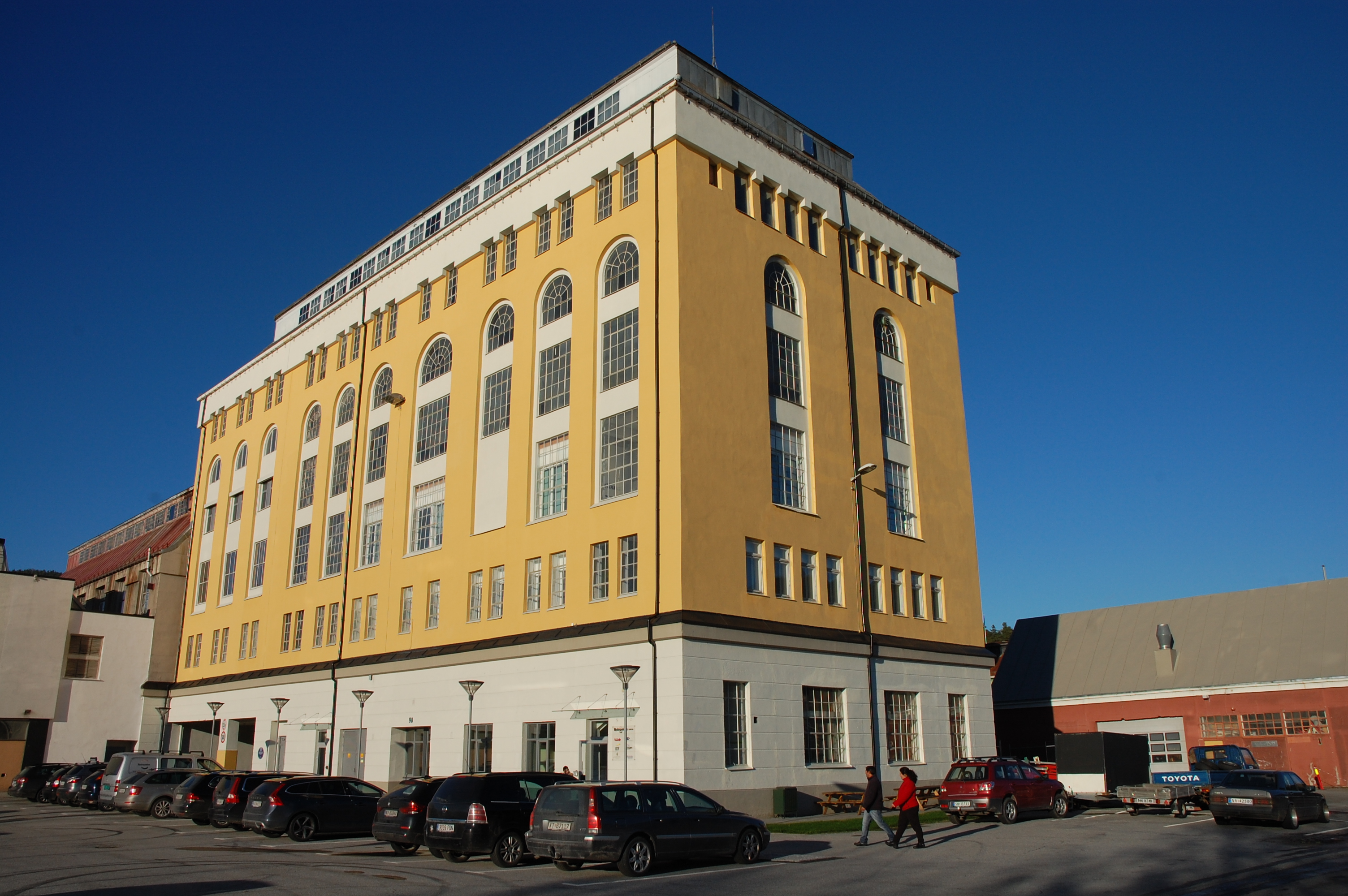 Ammoniakkvannfabrikken (Ammonia dioxide factory), Notodden, 1914-1916.